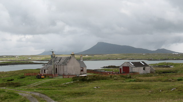 Flodaigh, Outer Hebrides, Scotland with Eaval on North Uist in the background